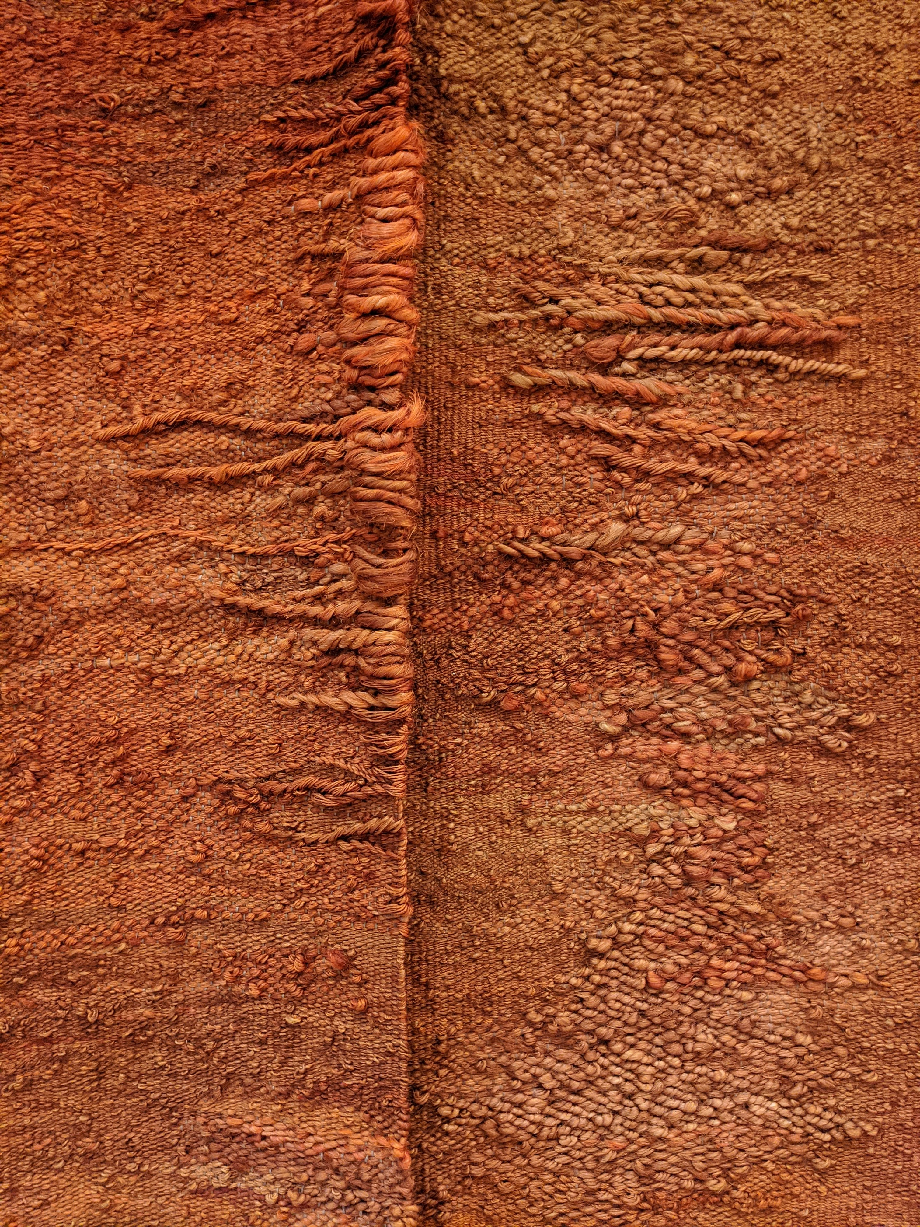 Magdalena Abakanowicz, Untitled, 1980-1983 Sisal weaving in five parts, 158 x 439 3/4 in. (401.3 x 1117 cm) Nasher Sculpture Center This image is a detail of Untitled, one of the largest sisal weavings Abakanowicz ever made. It features varying gauges of burnt umber fiber, ranging from thin cords to thick braids, interwoven throughout multiple panels. Hung slightly off the wall, the work emerges as an independent entity, filling our range of vision.